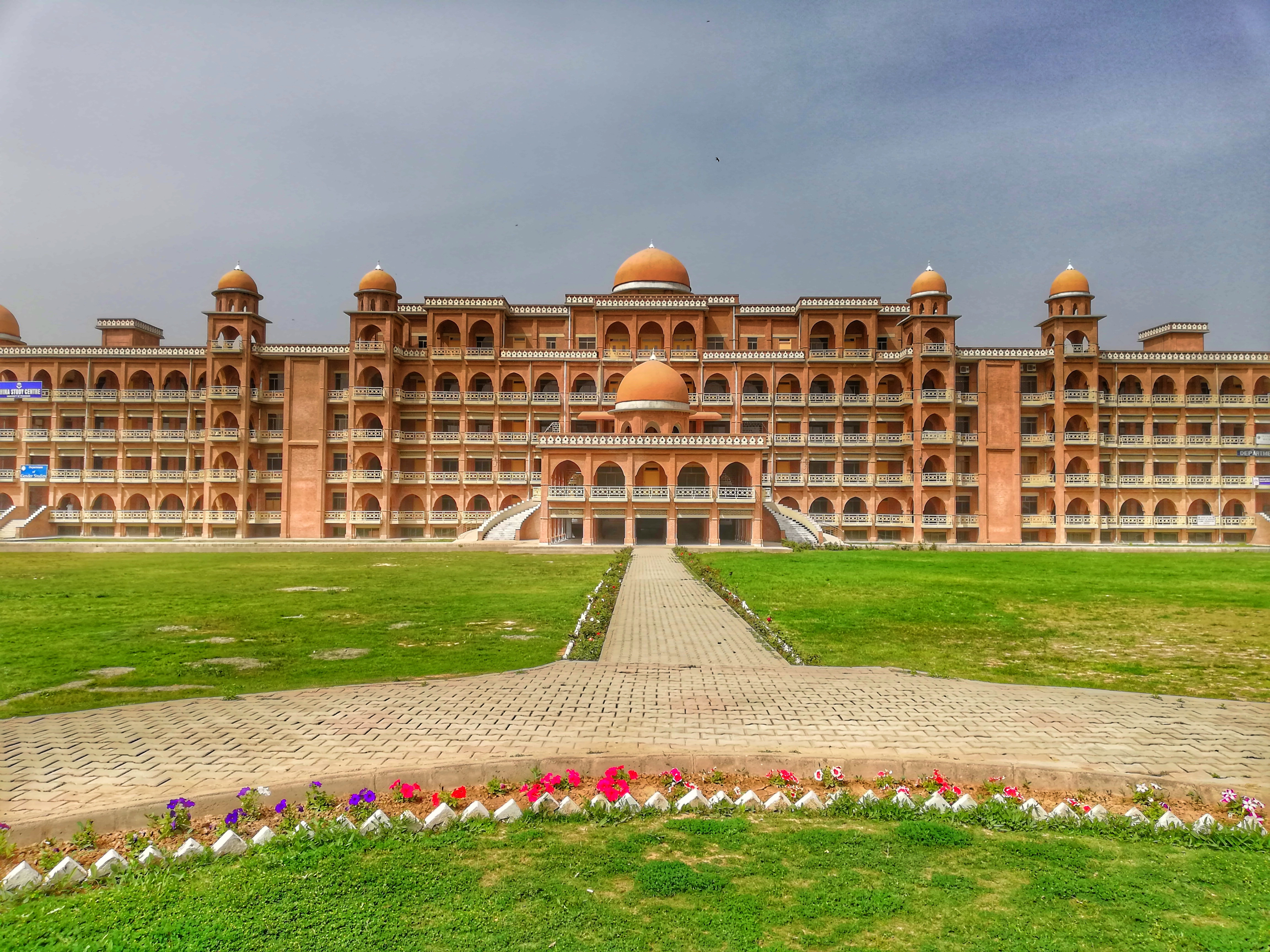 Peshawar University, Pakistan, amazing building, oval eye view